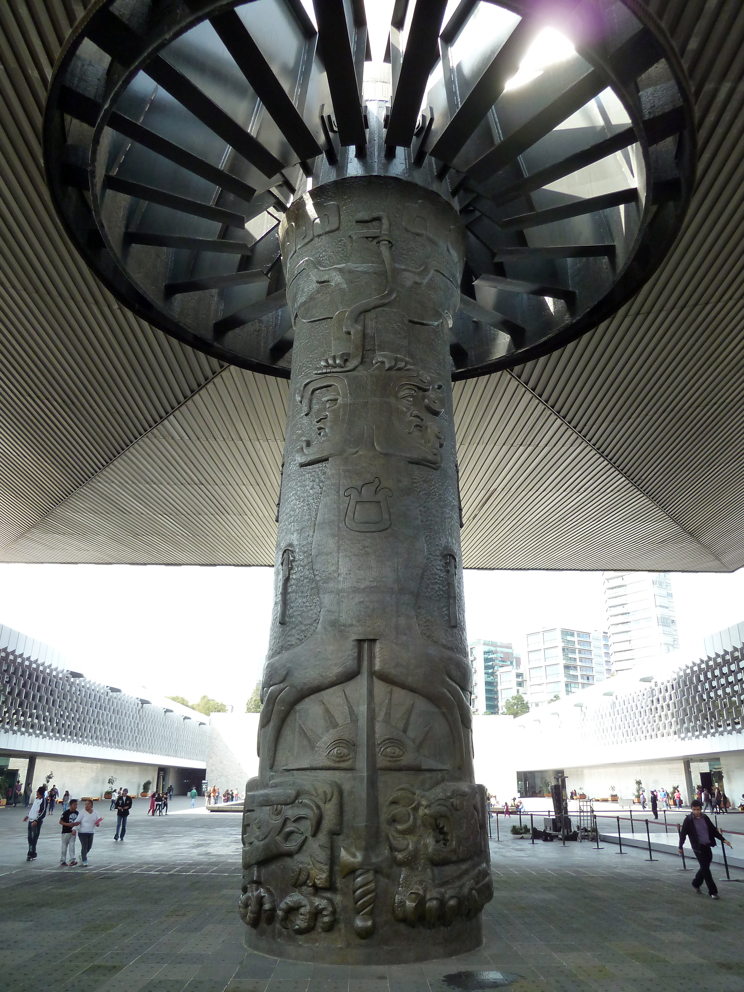 Day 2: Mexico City National Museum of Anthropology (The Umbrella)